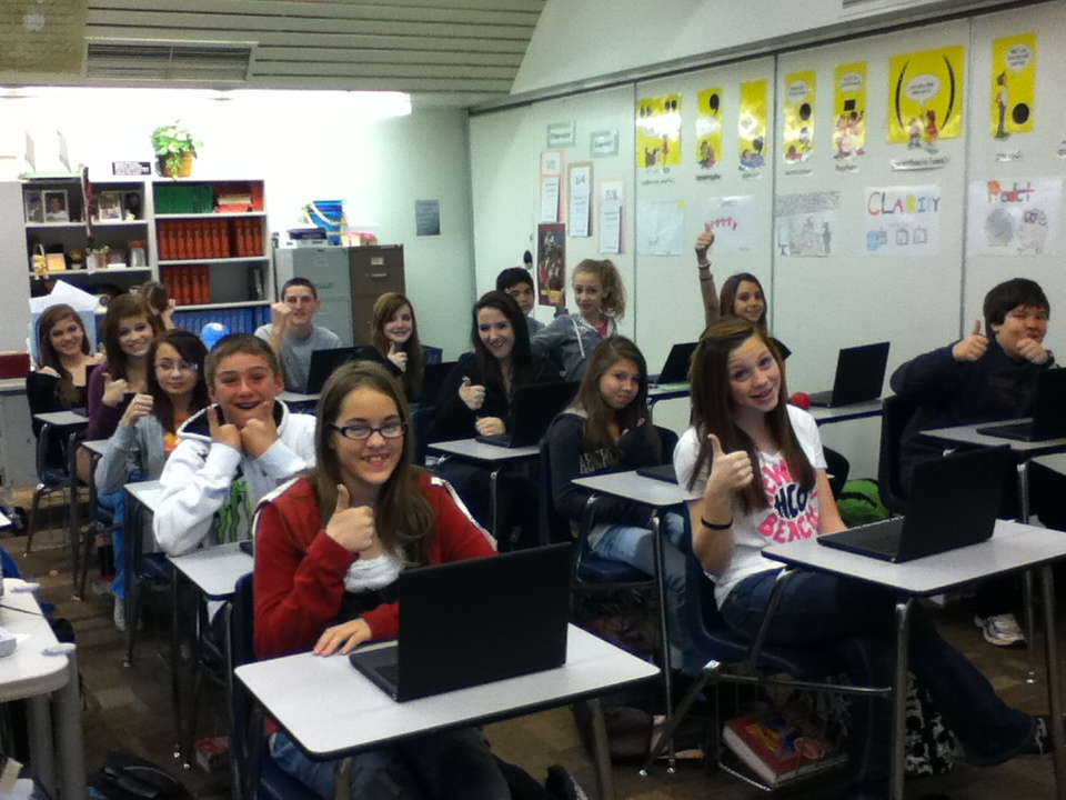 Description One picture of a group of pictures offered by Mr. Jeff Billings, IT Director, PVUSD. Parents have granted permission to the Paradise Valley Unified School District to have the students pictures taken and used for publications.